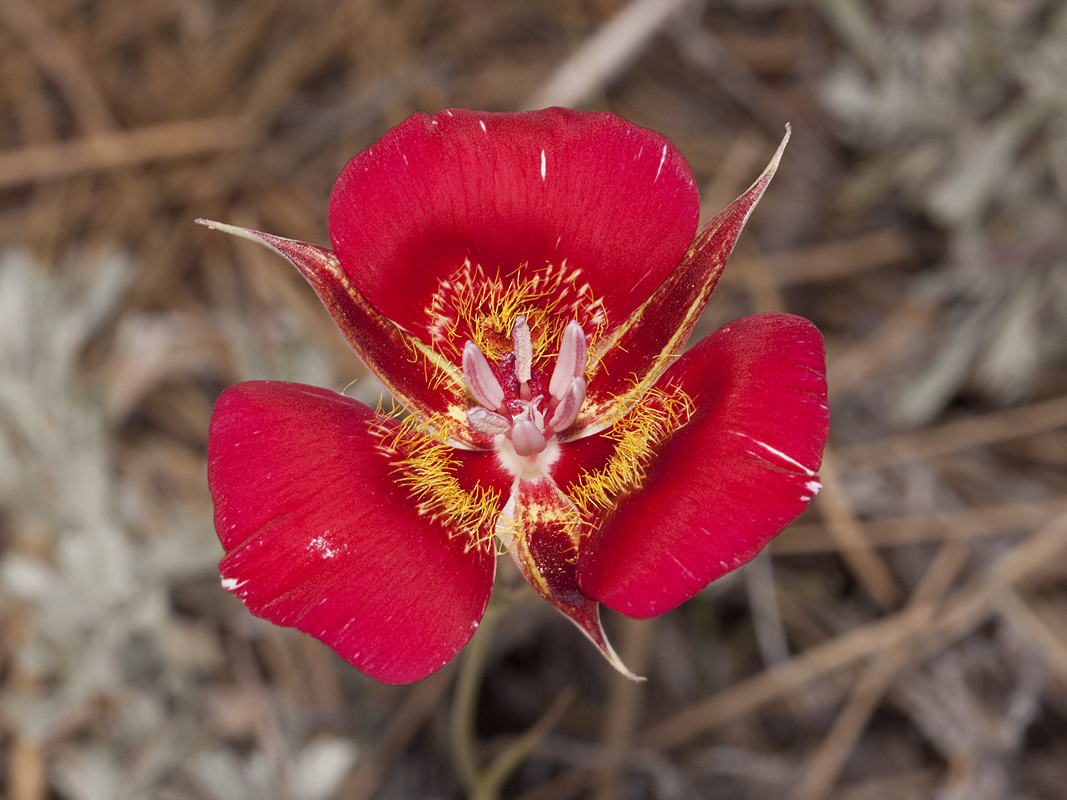 Calochortus venustus. Red form. Mt. Pinos, Kern Co., CA USA July 23